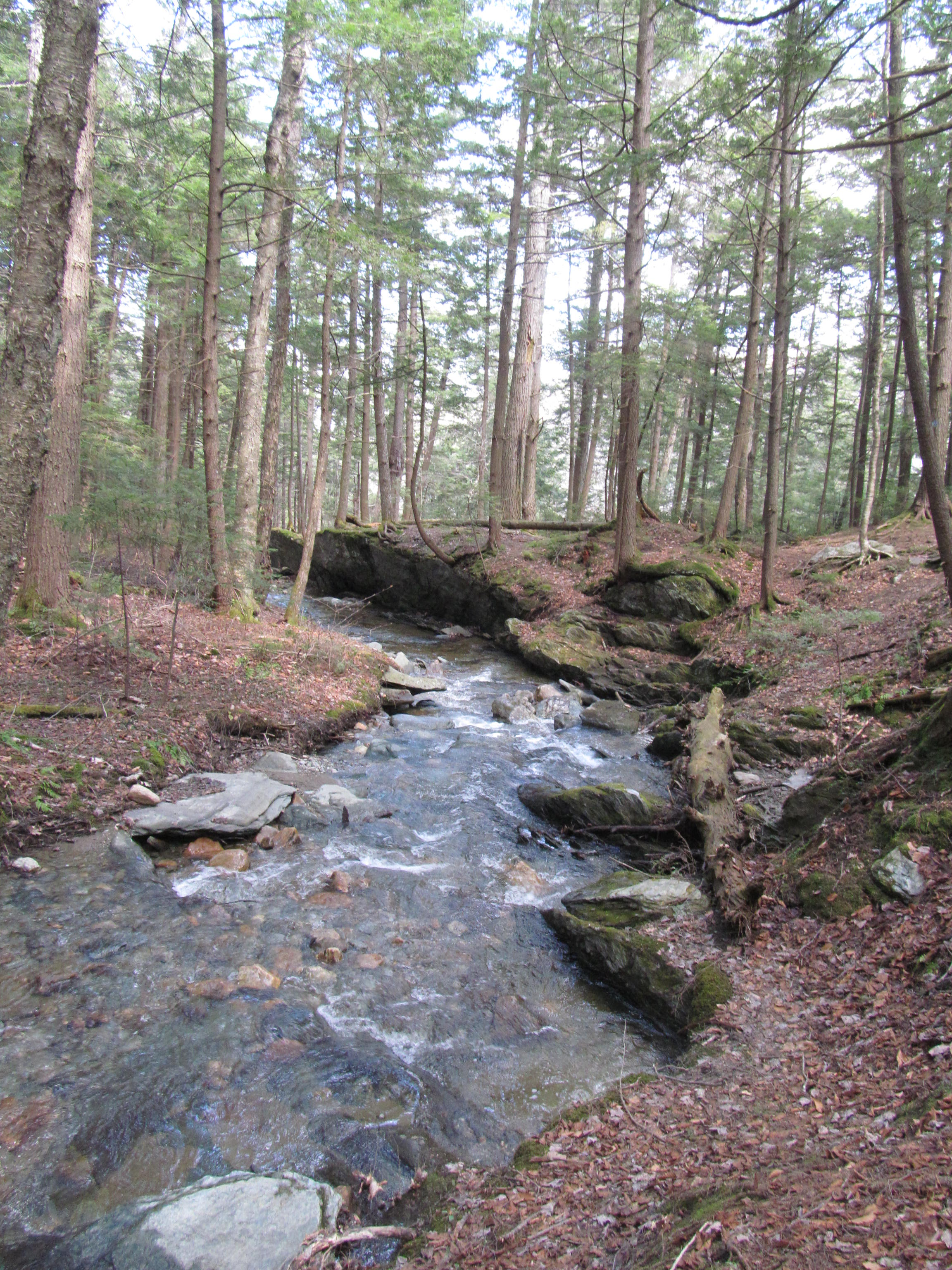 Savoy Mountain State Forest - Savoy, Massachusetts